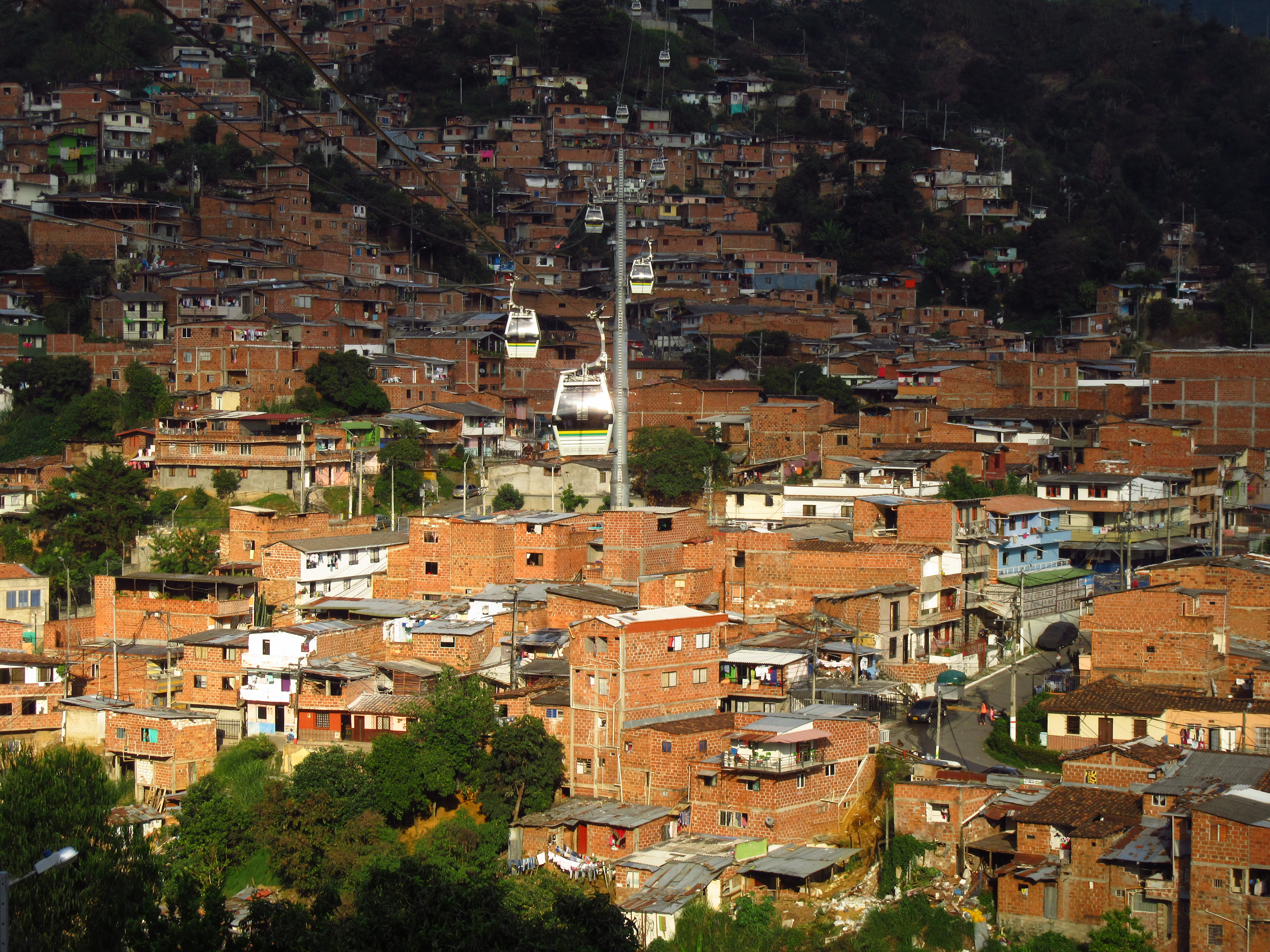 Medellín